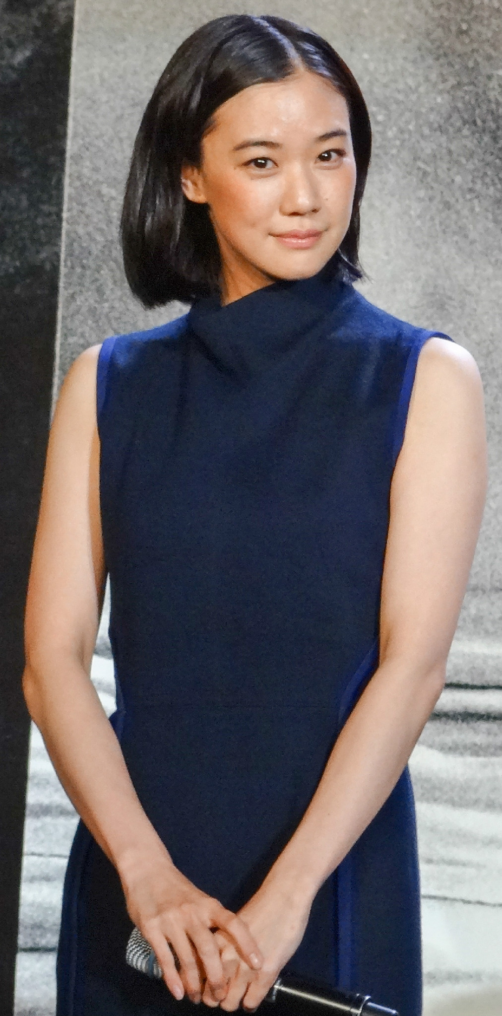 Rurouni Kenshin: Kyoto Inferno / The Legend Ends, Red Carpet Premiere: Aoi Yu